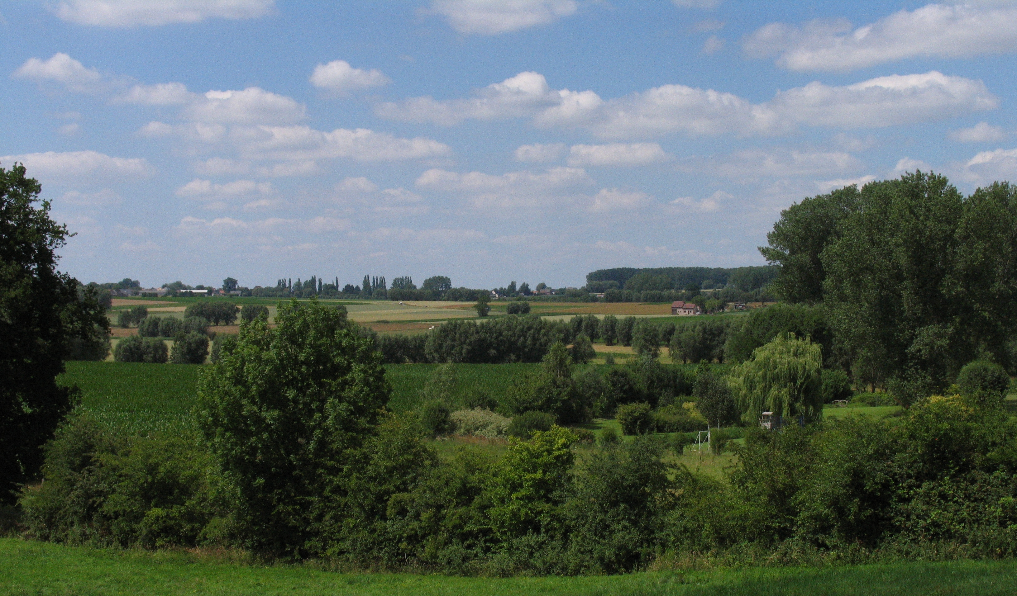 This photo of immovable heritage has been taken in the Flemish Region